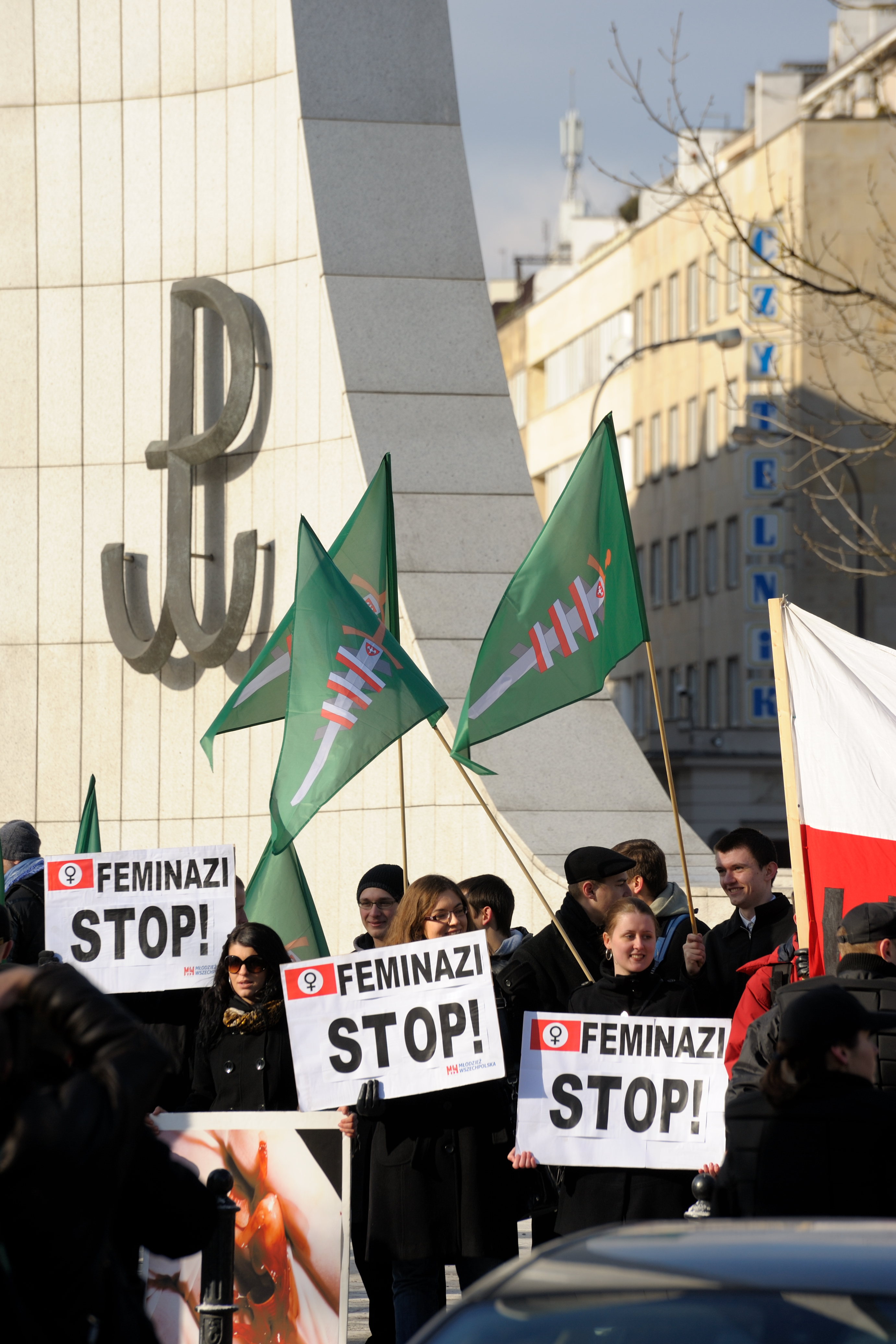 A group of Polish extremist nationalists protest an International Women's Day march in Warsaw, 2010. They hold extremist flags, wear black and hold signs that read "Feminazi stop" with the venus symbol inside a Nazi flag.